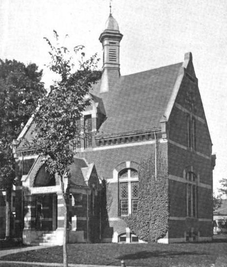 Public library, Massachusetts